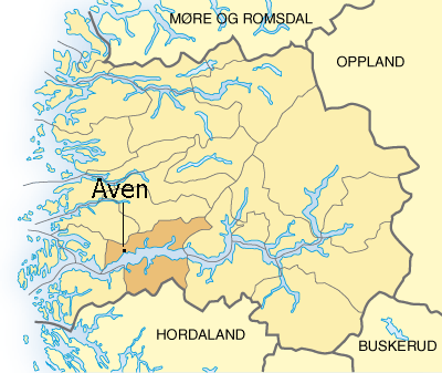 Show where Aven is